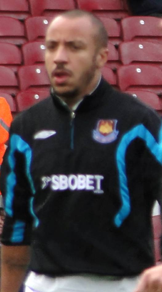 West Ham's 'defender' Julien Faubert 'warming-up' before the game against Everton, 8/11/09